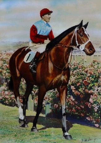 LUCRATIVE 1940 VRC DERBY MAURICE McCARTEN